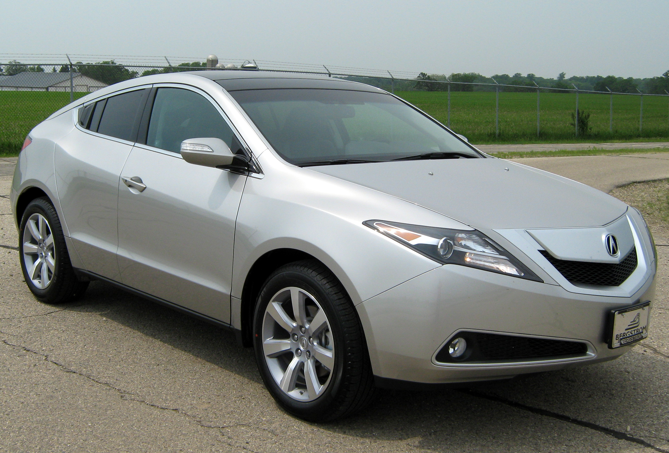 2011 Acura ZDX photographed in USA.